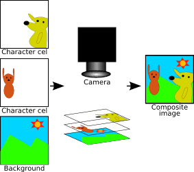 For traditional animation article.